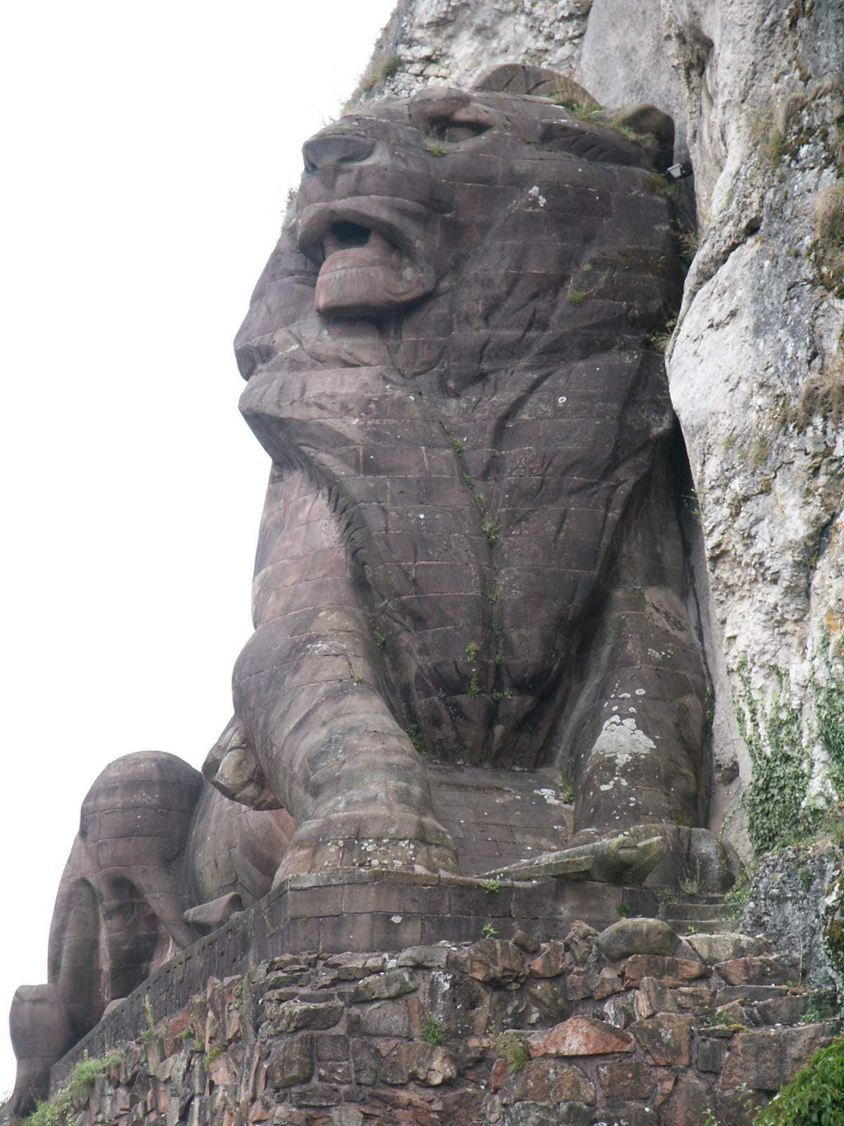 Front view of the Bartholdi's Lion at Belfort.